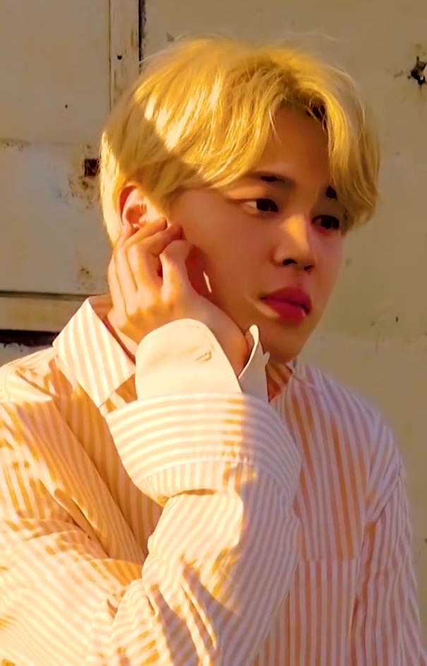 Jimin in a photo shoot for Dispatch in November 2017, in Los Angeles, California, USA